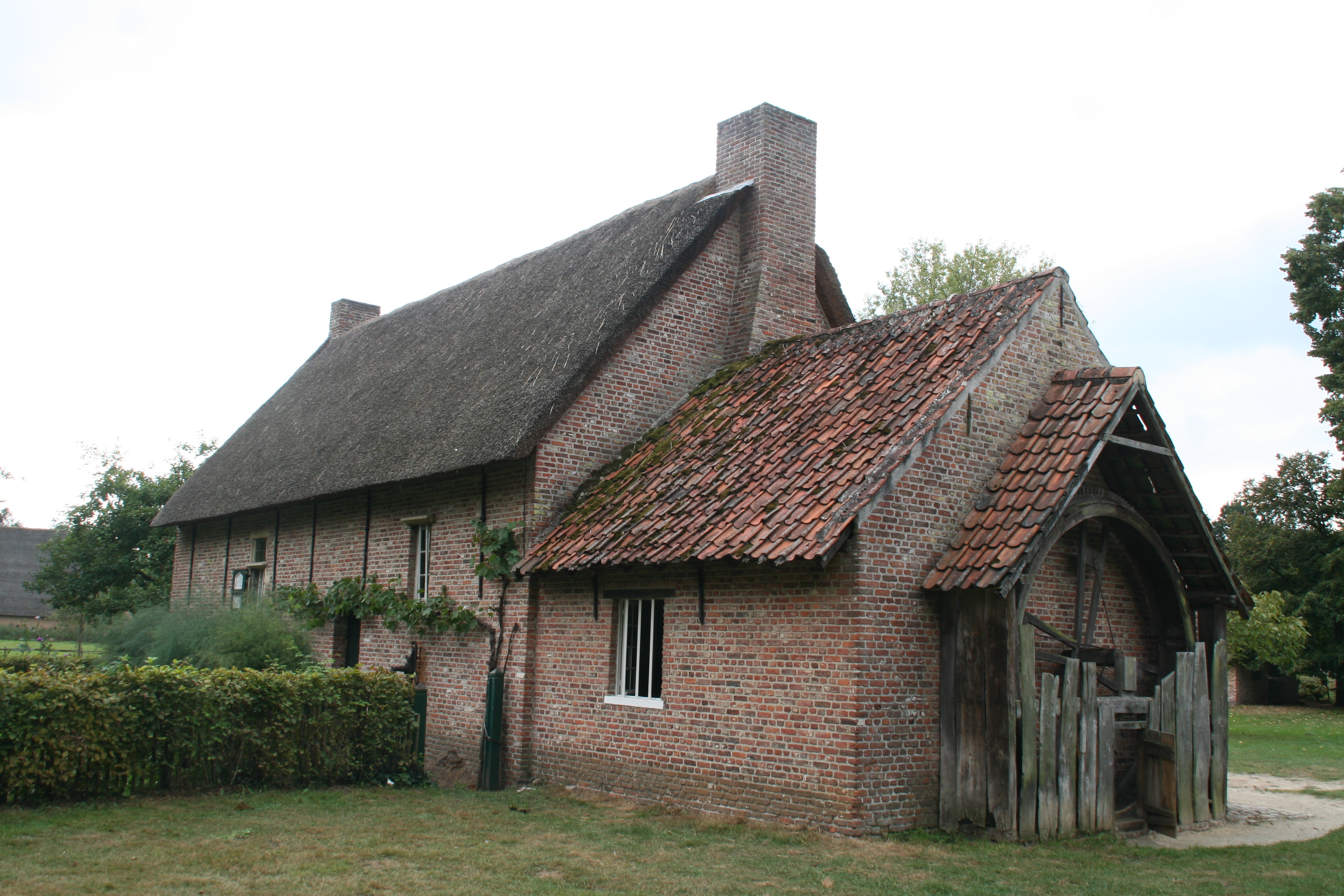 Farmhouse from Lokeren in the Bokrijk open-air museum.